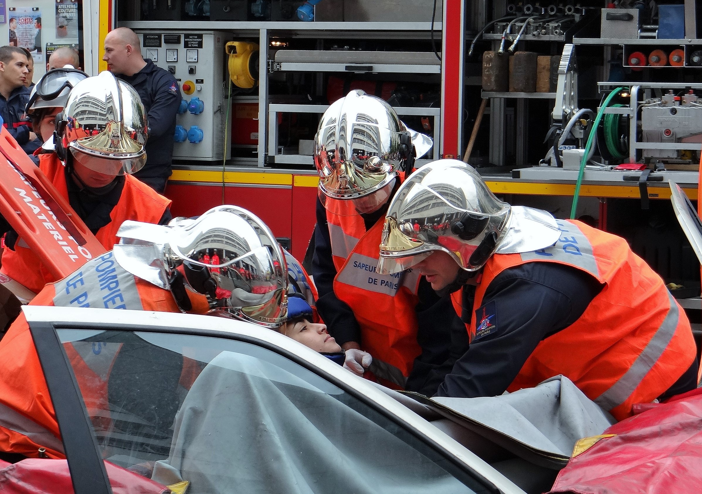 rescue demonstration to victim by the firemen of Paris, Montrouge, France